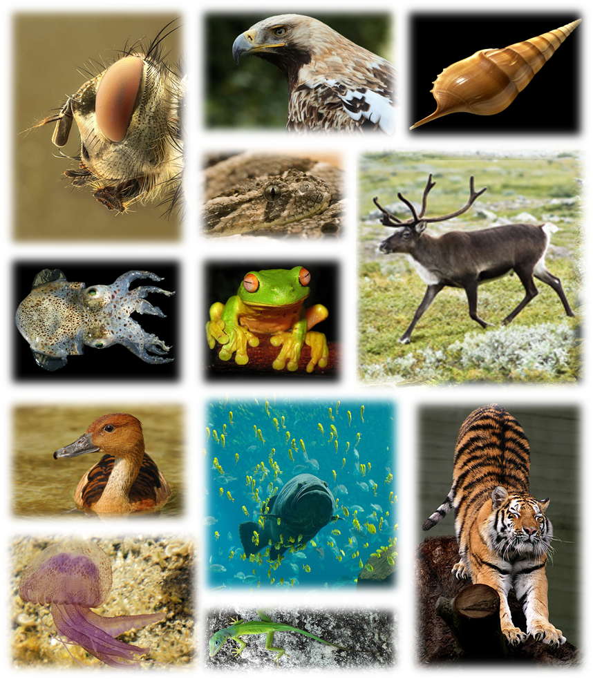 Kingdom of animals.